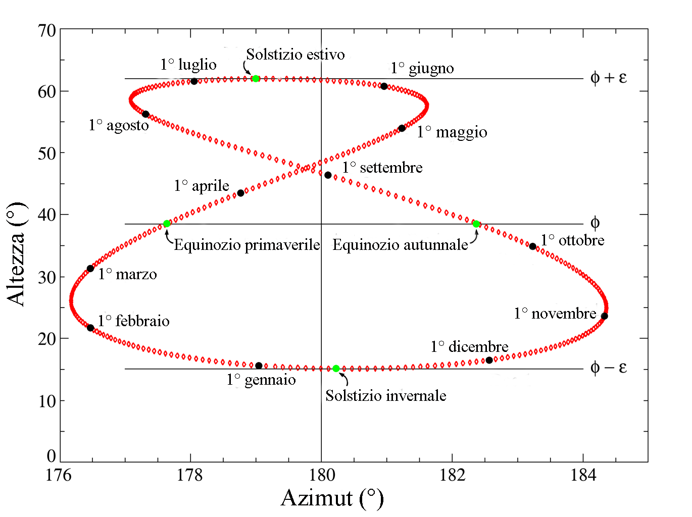 italian translation of Image:Analemma Earth.png